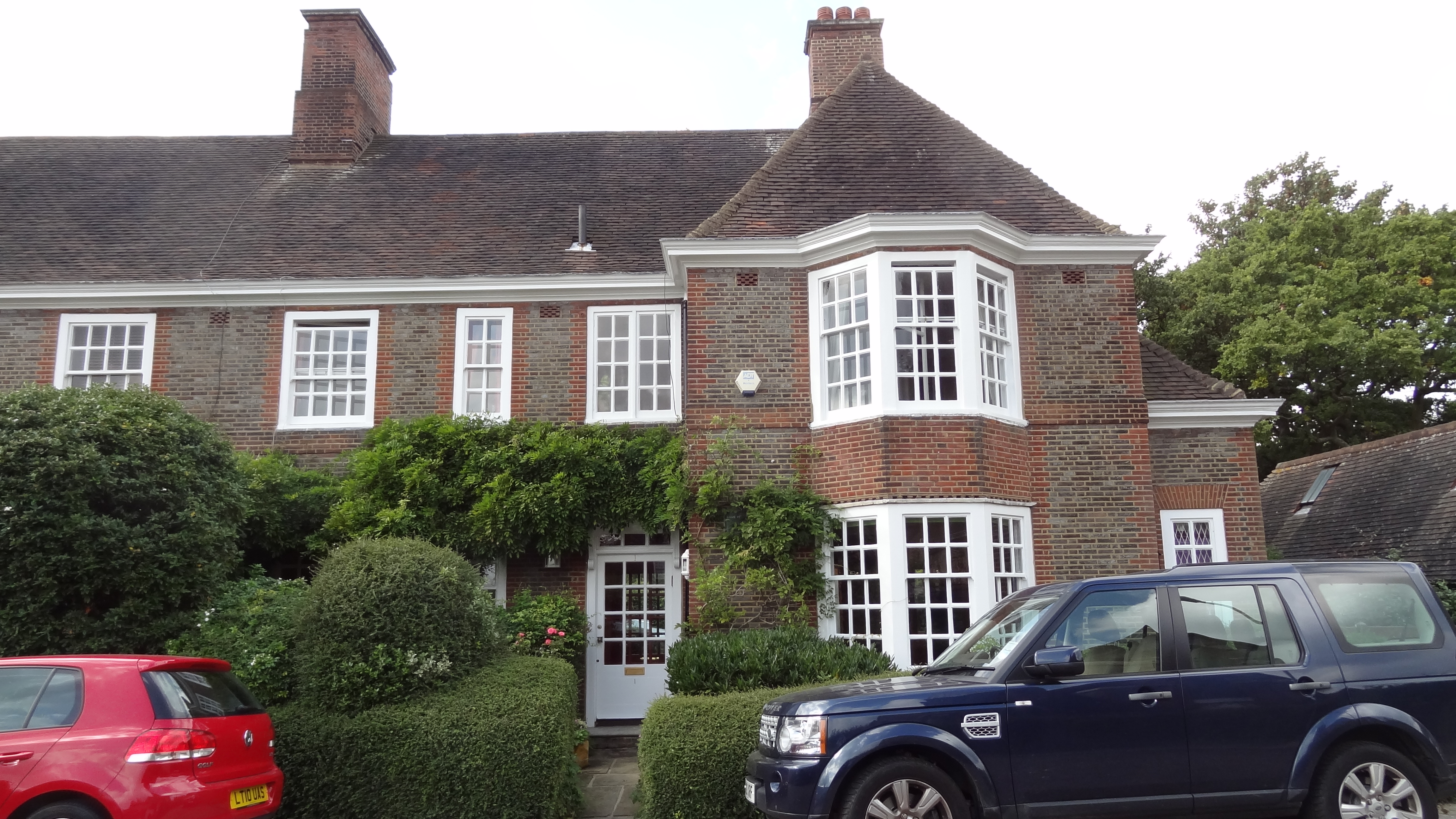 1 South Square, Hampstead Garden Suburb, Grade II* listed building in Barnet, London and former home of Henrietta Barnett